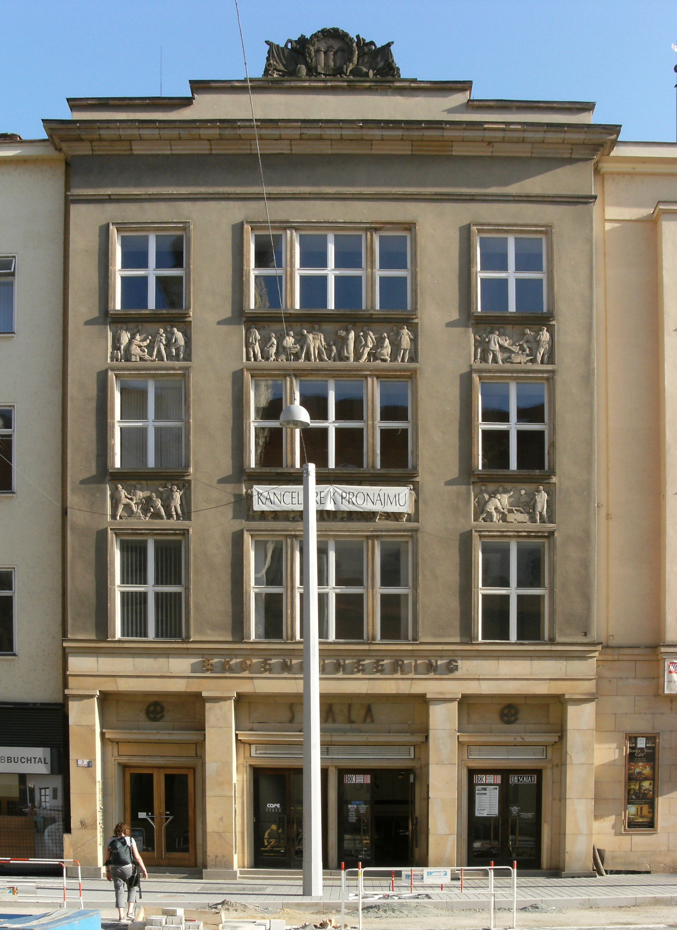 Building in Brno with reliefs.